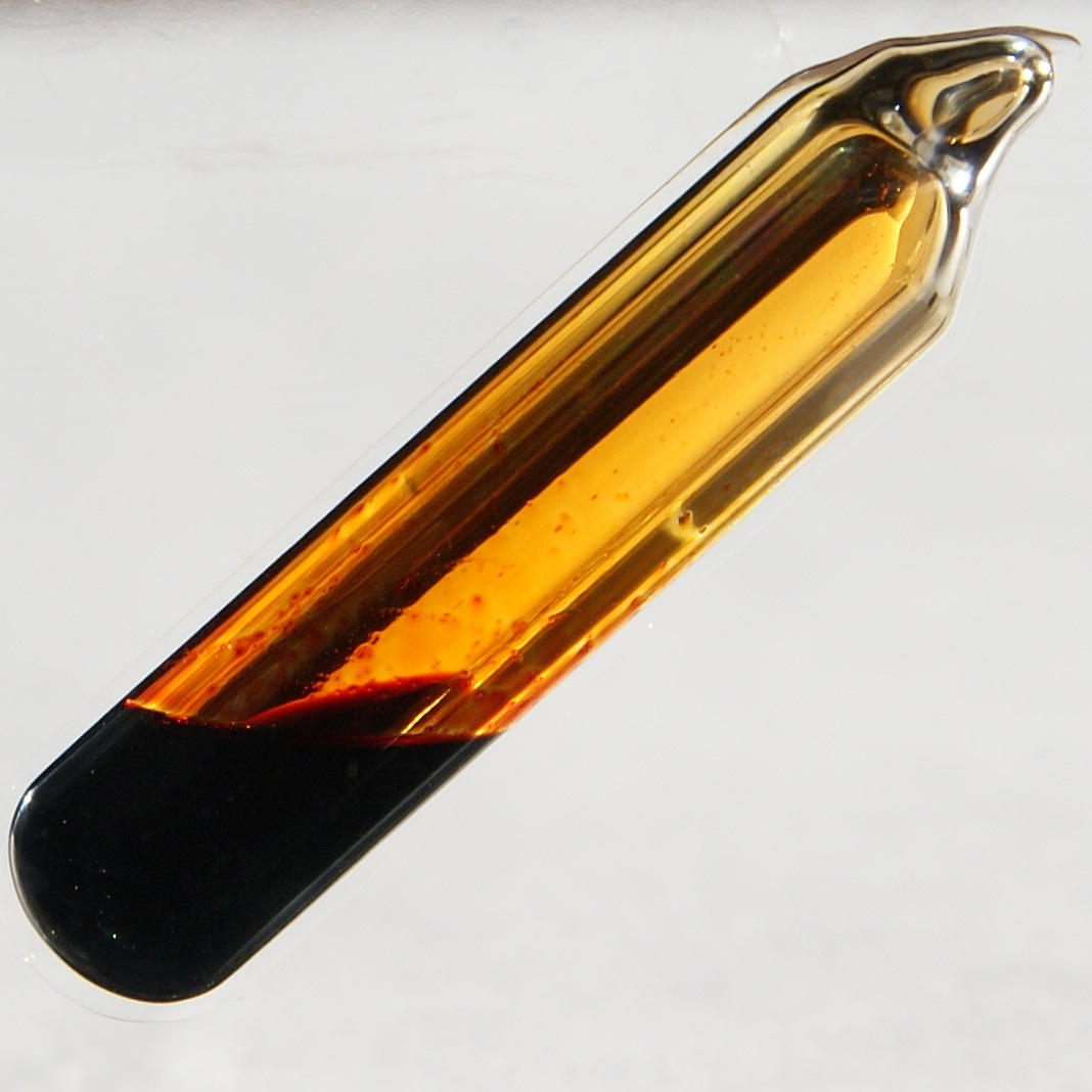 Bromine is very corrosive and its compounds are toxic, nonetheless they are still widely used in flame retardants. Bromine is quite abundant in sea water, some marine organisms need bromides to life. Bromine and mercury are the only elements that are liquid at standard conditions.